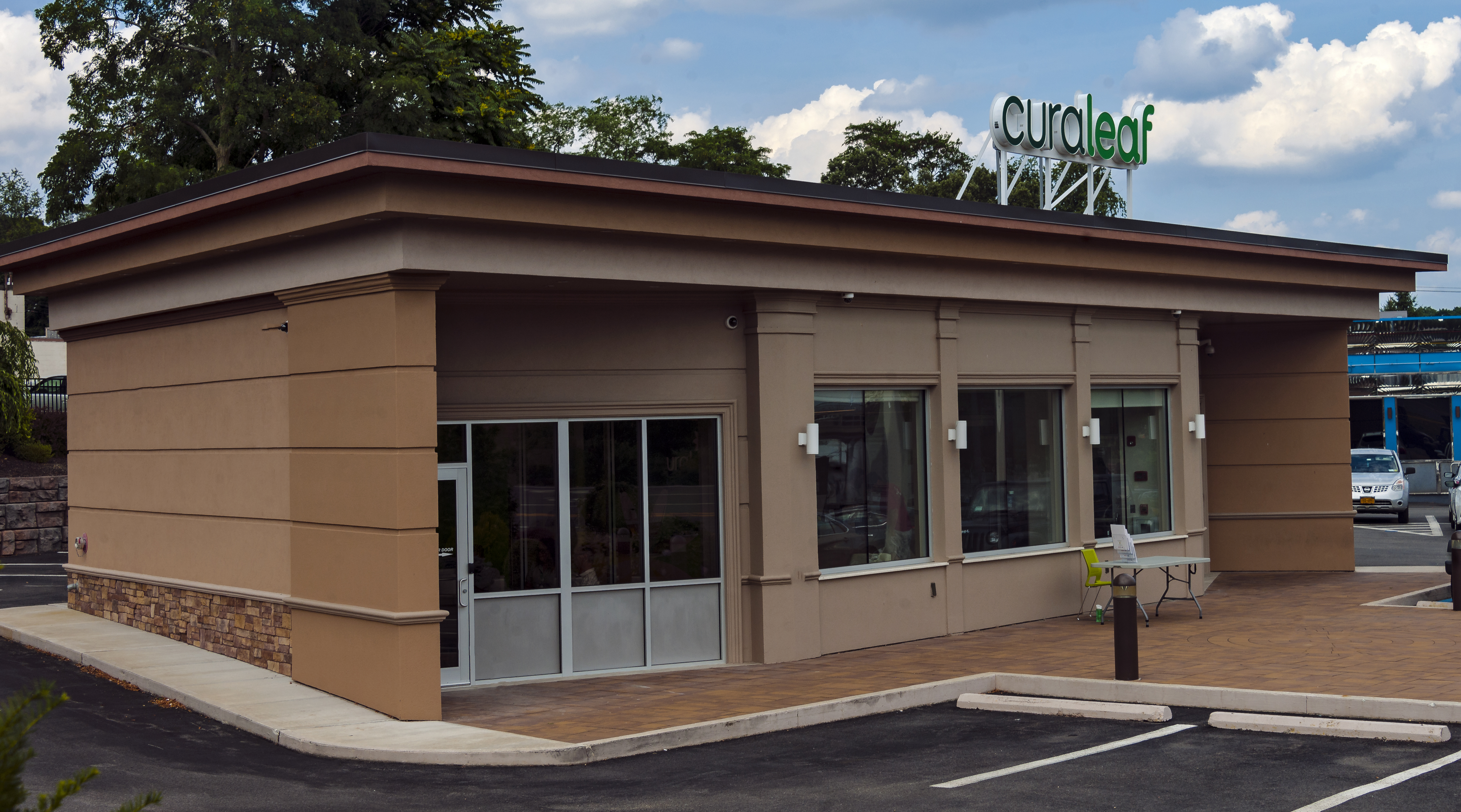 Curaleaf medical marijuana dispensary in Town of Newburgh, NY, USA